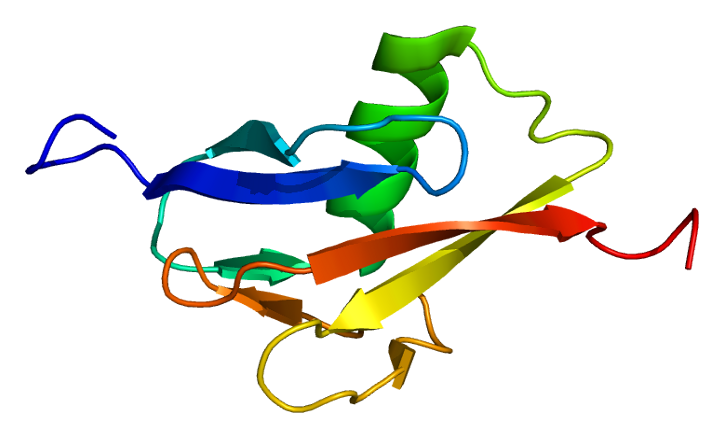 Structure of the RBBP6 protein. Based on PyMOL rendering of PDB 2c7h.